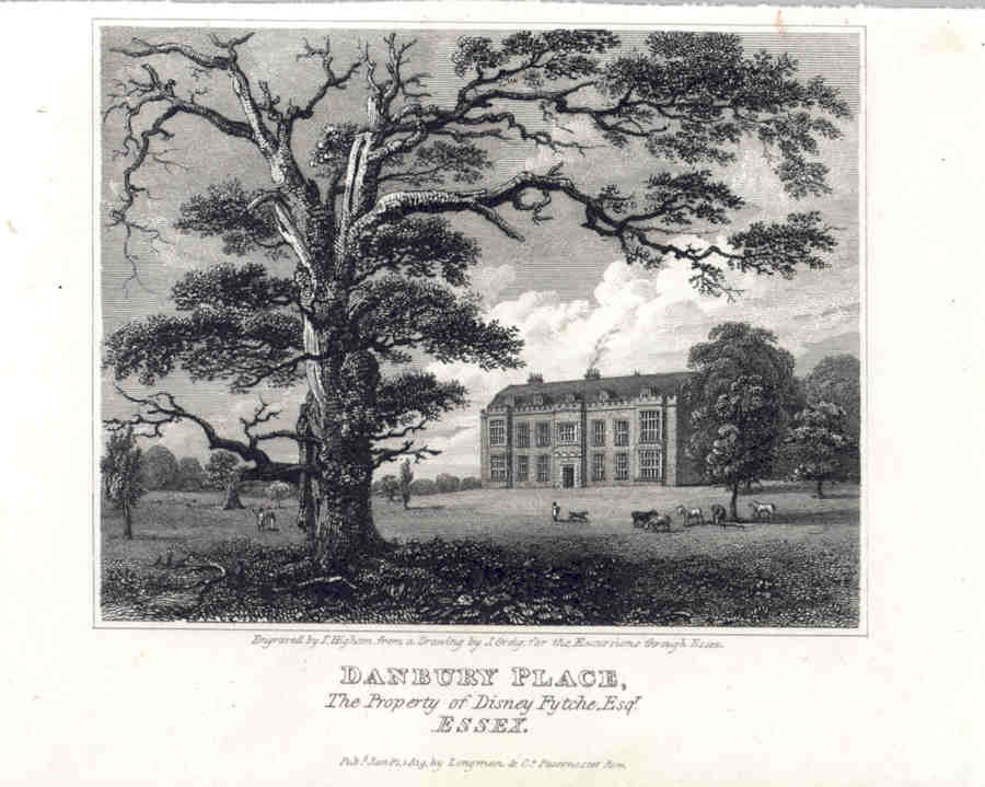 Danbury Place, the Property of Disney Fytche, Esq.r, Essex, engraving from Excursions in the County of Essex (1818) by Thomas Kitson Cromwell.